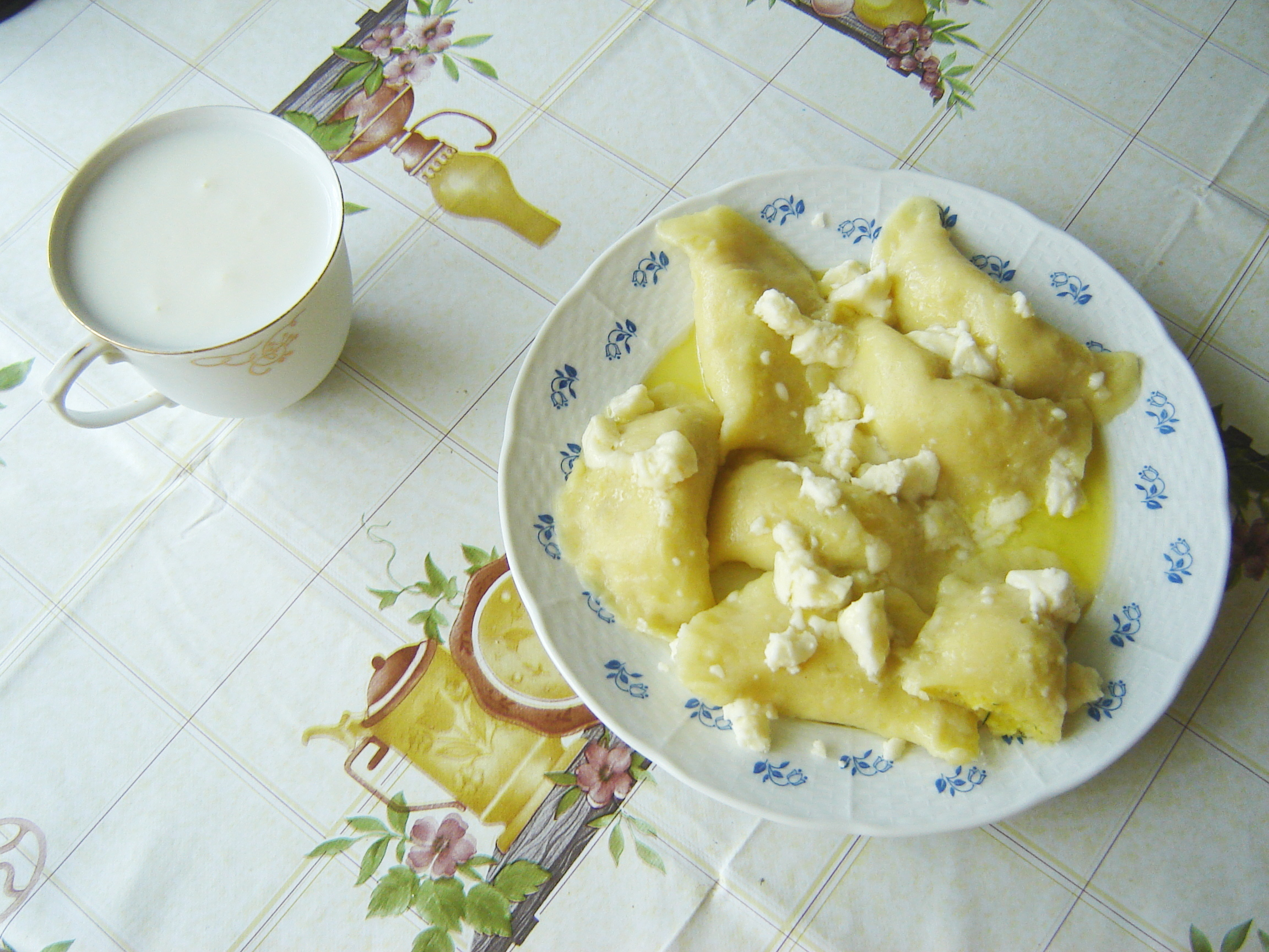 Slovak dumplings (pirohy) filled with bryndza cheese